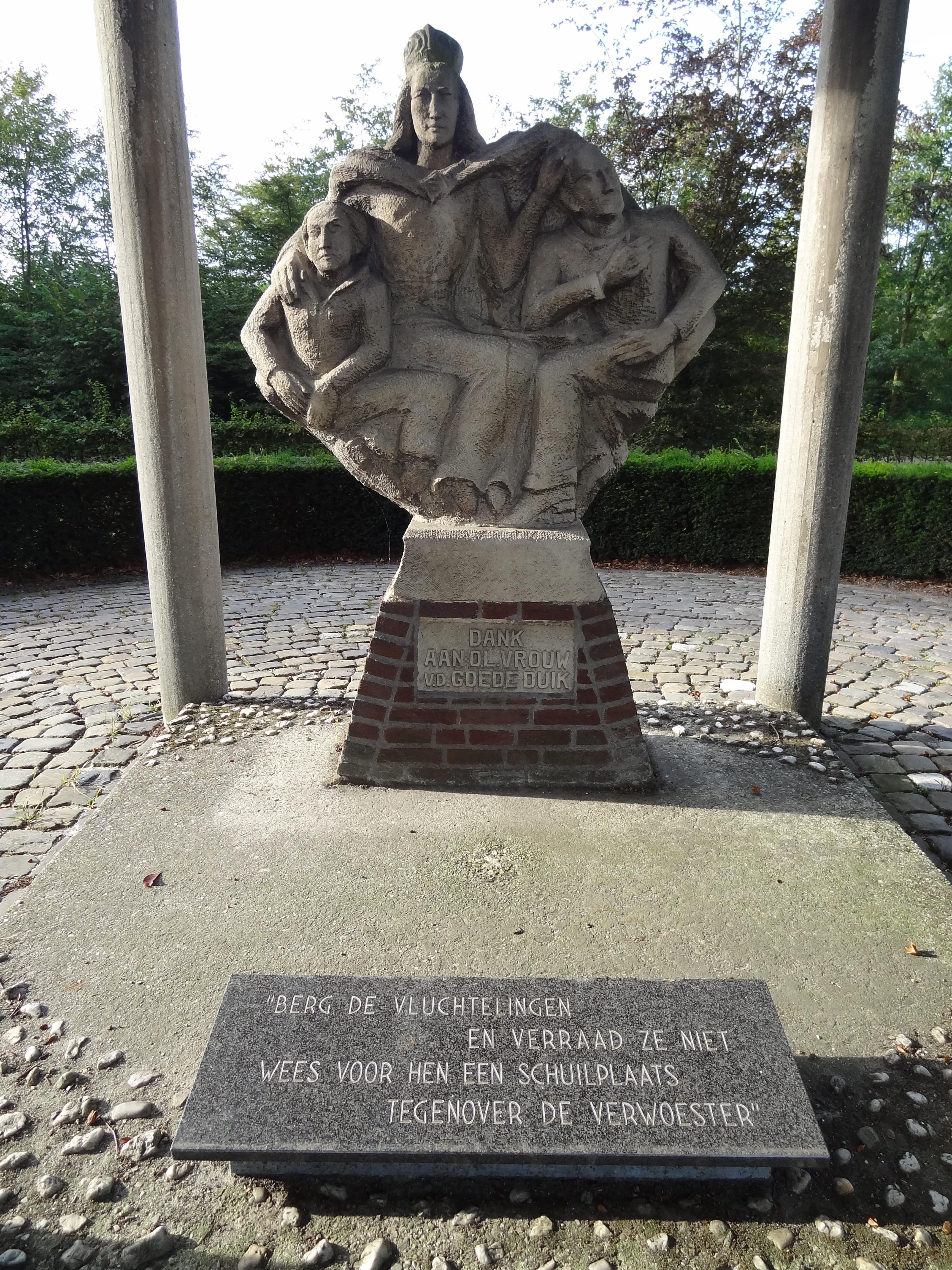 Statue of "Maria van de Goede Duik" (Virgin Mary) created by Piet van Dongen in the Onderduikerskapel at the Venraijseweg in Overloon, The Netherlands